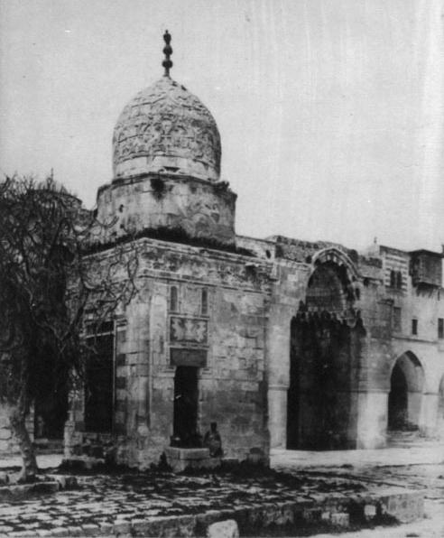 View of the Fountain of Qayt Bay from southeast showing Bab al-Qattanin and west portico in the background